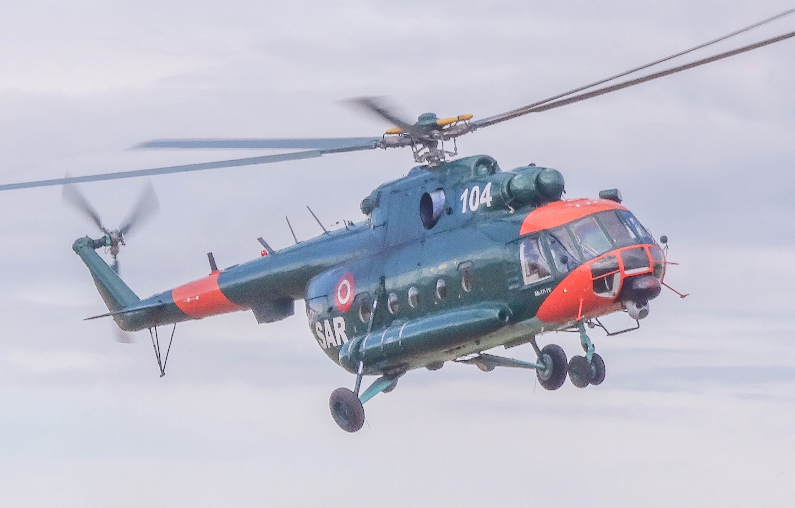 cropped version of Mil Mi-8 Latvian Air Force